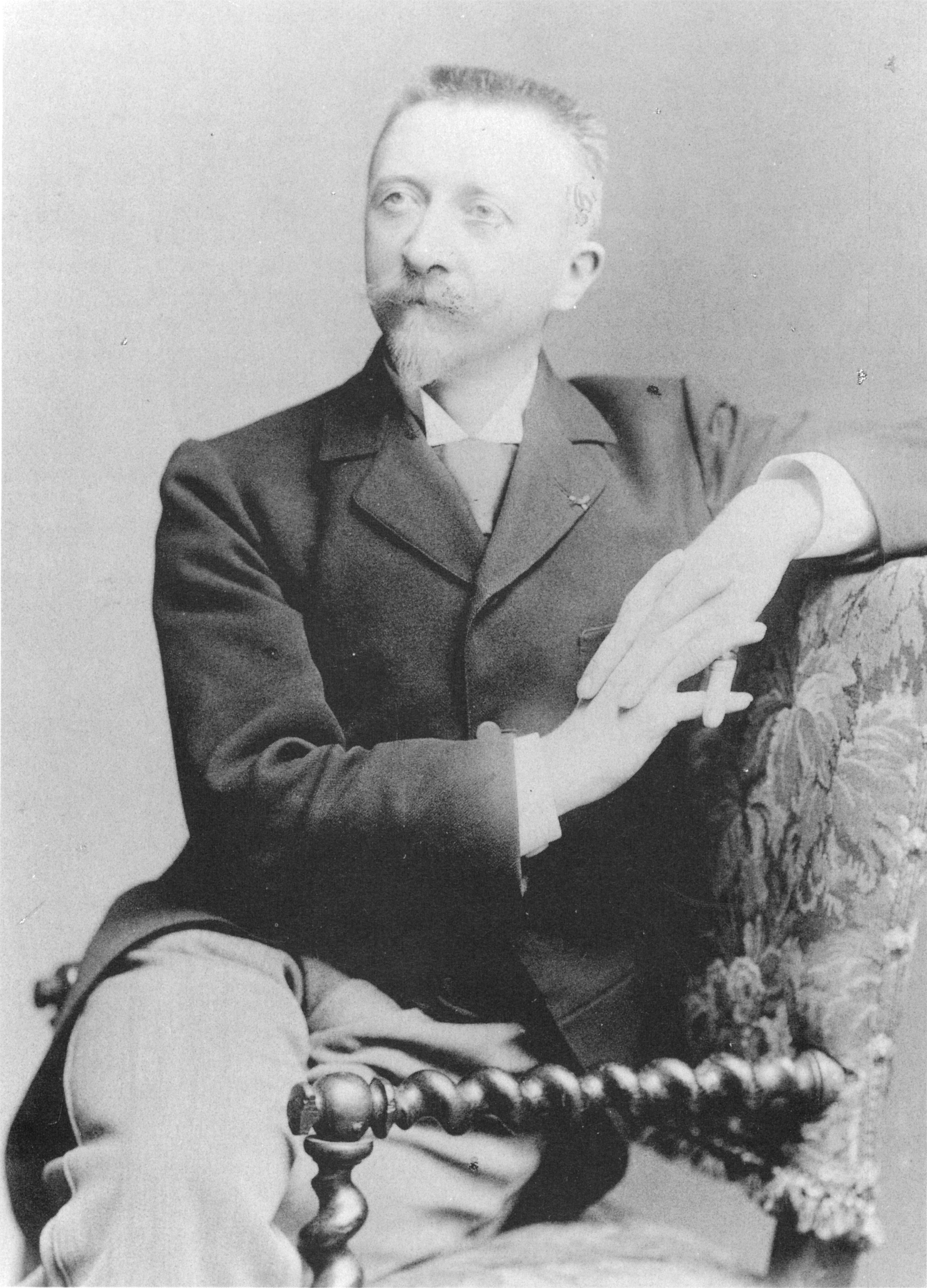 Photo portrait of the French architect Édouard-Jean Niermans taken in 1895 by Pierre Petit